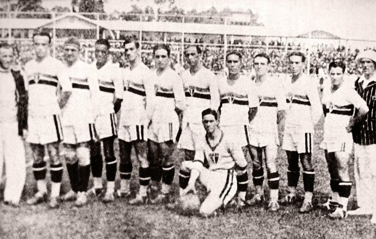 squad of São Paulo Futebol Clube, paulista championship winner of 1931. Standing, from left to right: Ribeiro (massage therapist), Armandinho, Barthô, Bino, Araken, Clodô, Friedenreich, Luizinho, Sasso, Mílton, Junqueirinha and Hugo (assistant referee). Sitting: Joãozinho.